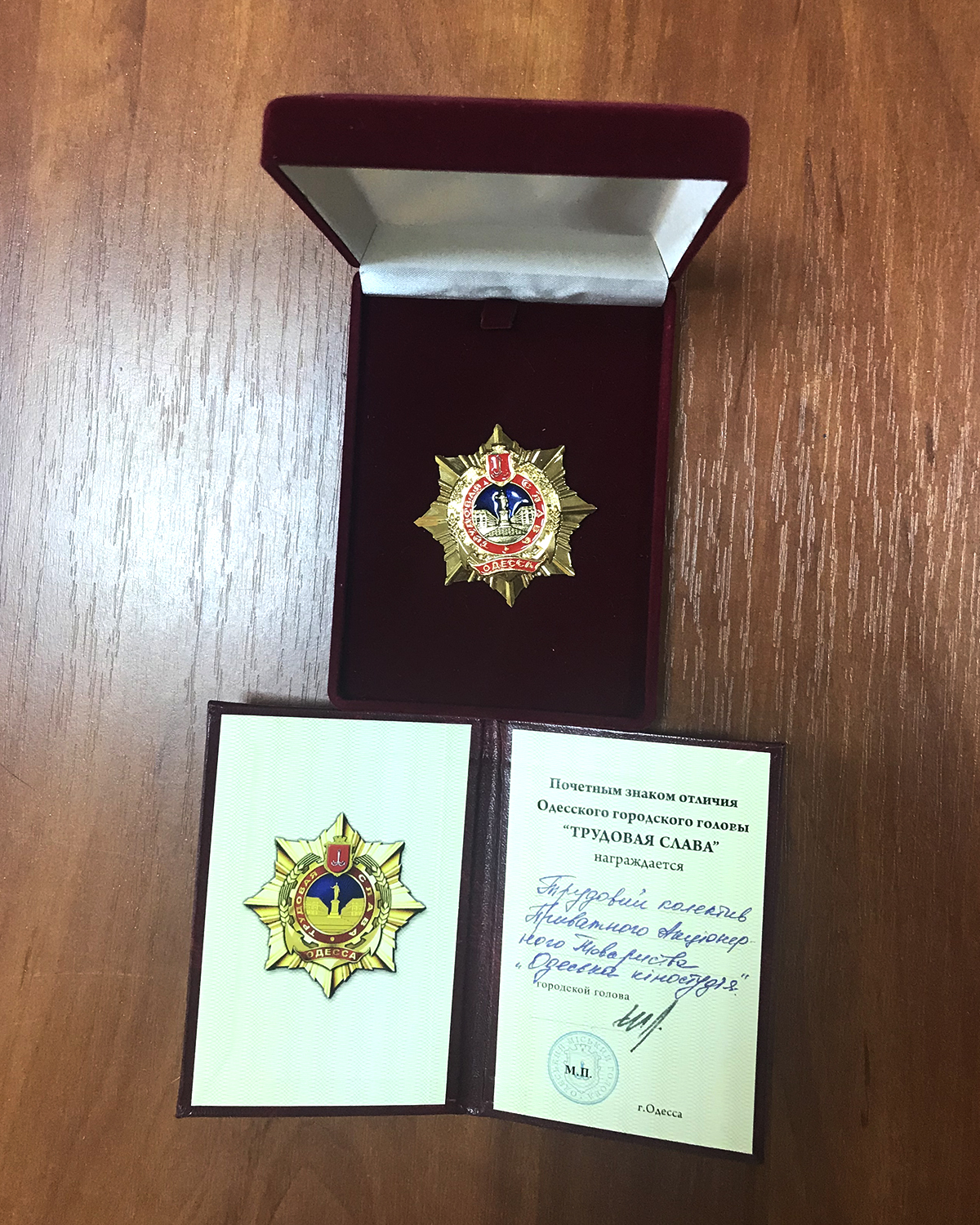 Нагорода в честь 100-річчя Одеської Кіностудії